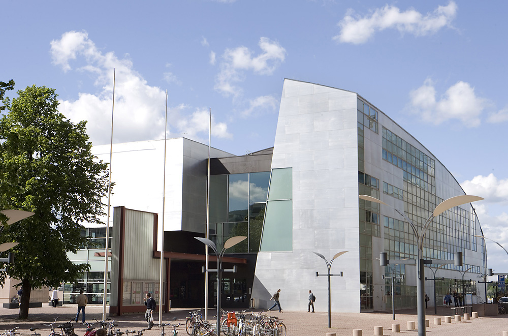 Museum of Contemporary Art Kiasma, Helsinki, Finland. Architect: Steven Holl. June 2007.